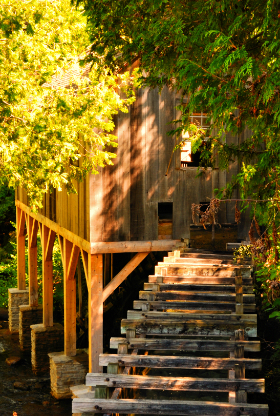 Historic Mill Creek State Park, Mackinaw City, Michigan Looking at the saw mill inside the state park.